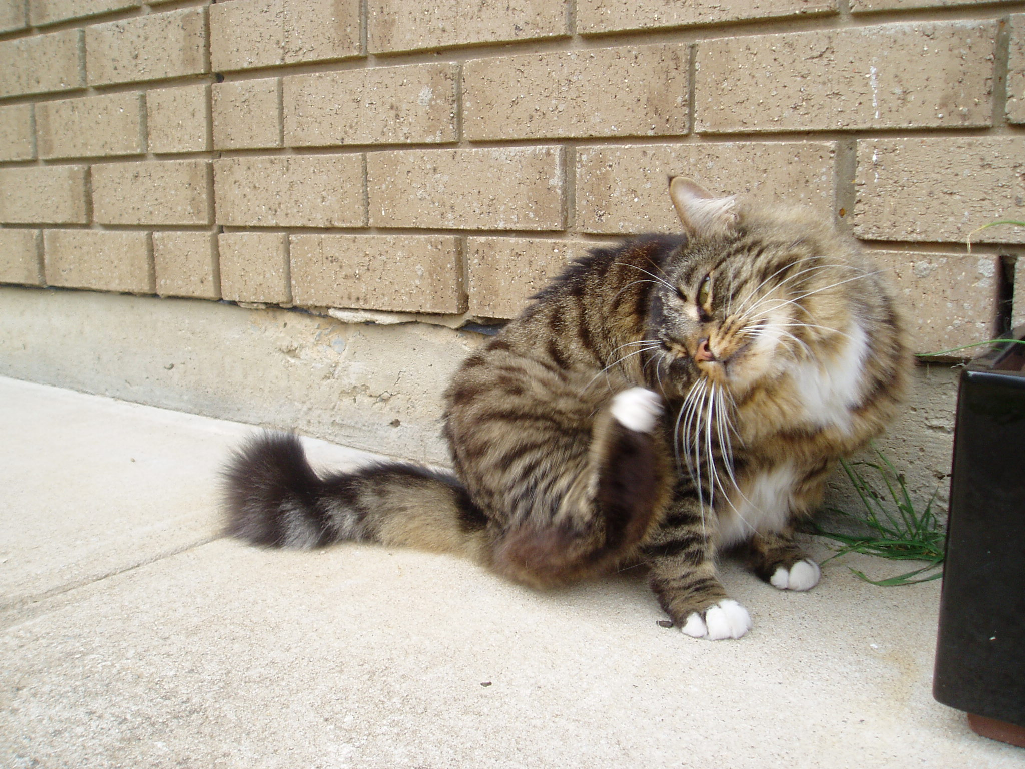 A munchkin cat grooming herself